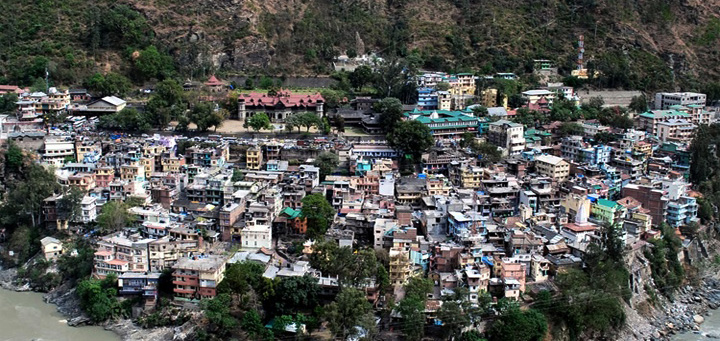 Main Bazaar of Rampur including Padam Palace